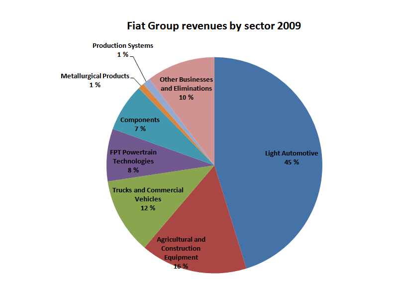 Fiat Group revenues 2009 note: activities shown are prior to spin-off of agricultural and construction equipment, trucks and industrial powertrain (1 Jan 2011)